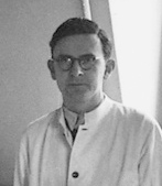 Niels K. Jerne